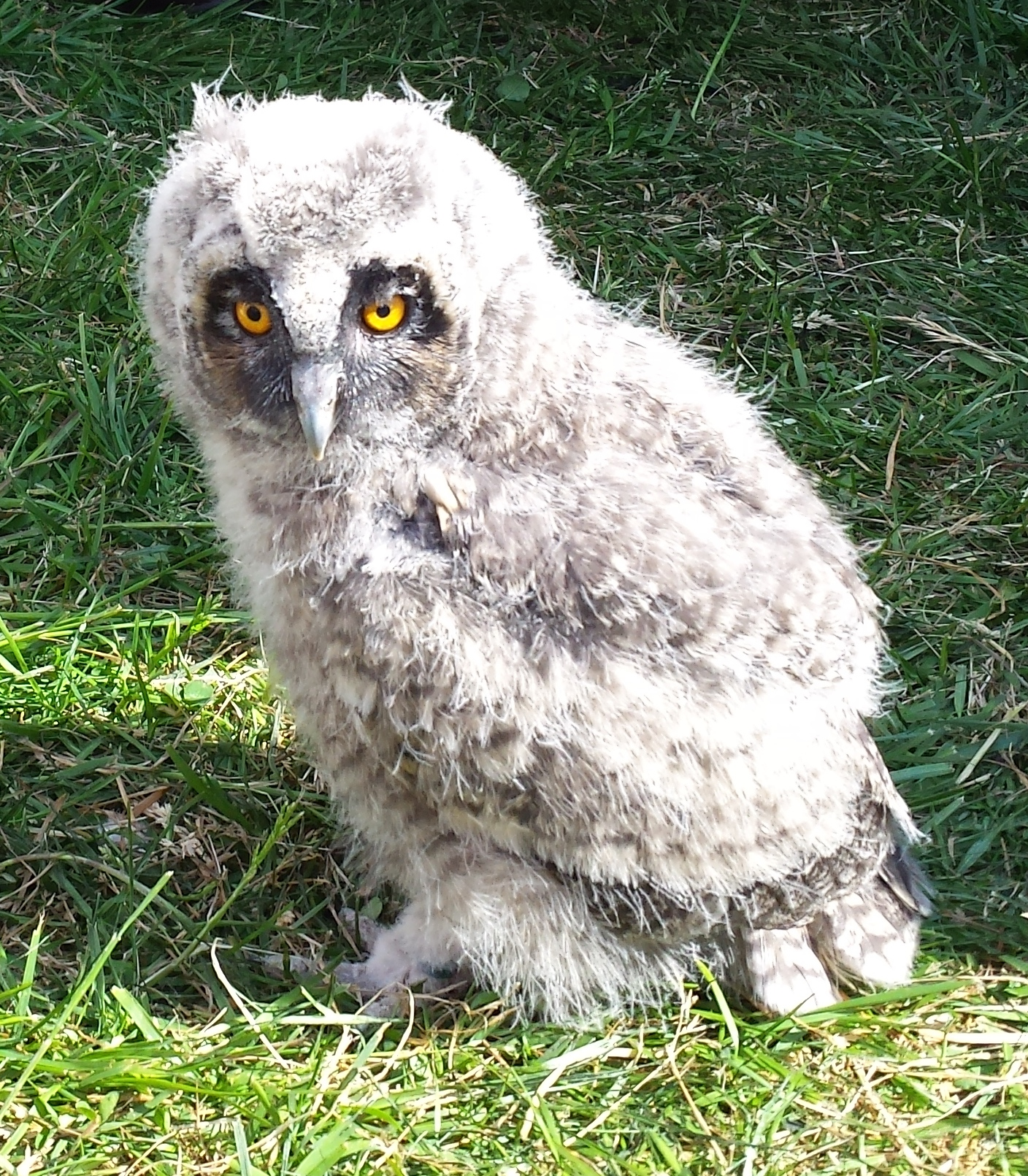 Captive short-eared owl chick at about 18 days old